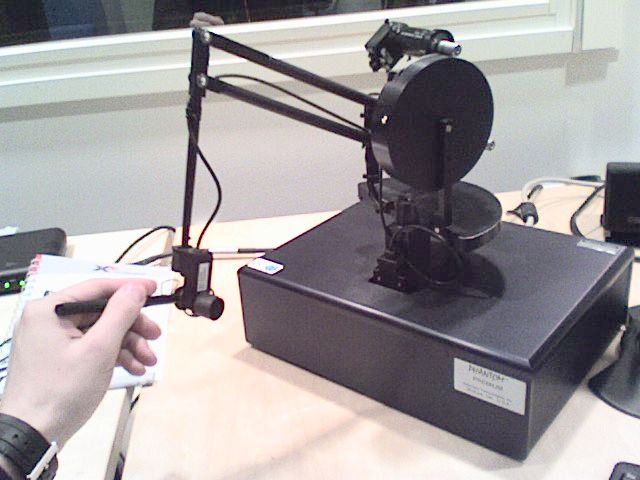 PHANTOM Premium A 1.5 haptic device made by SensAble.